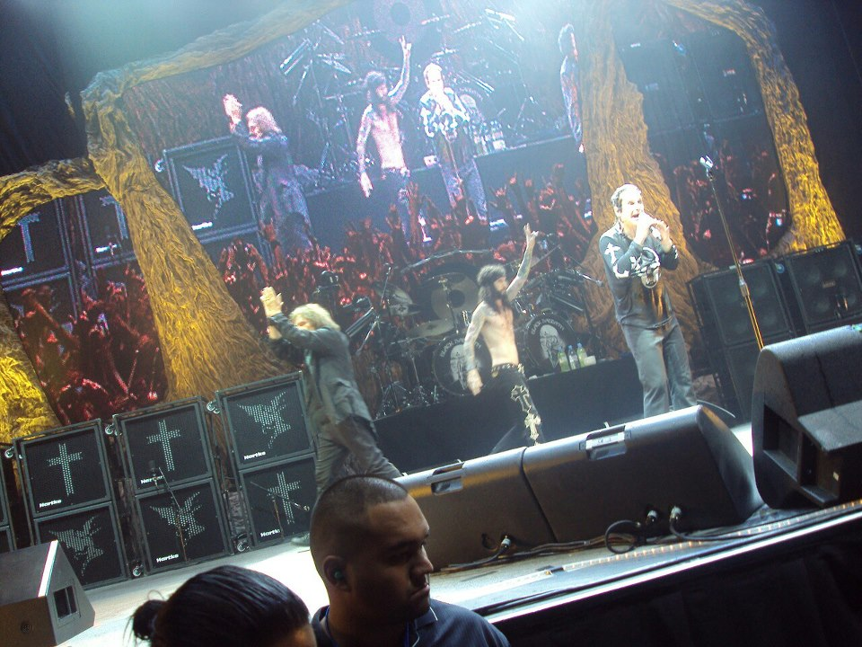 Black Sabbath at the Vector Arena, Auckland, 2013. "Hi there - feel free to use any picture and content from Heavy Rock the Playlist. Best regards Martin Johannessen" Photo by Alexander McWatters